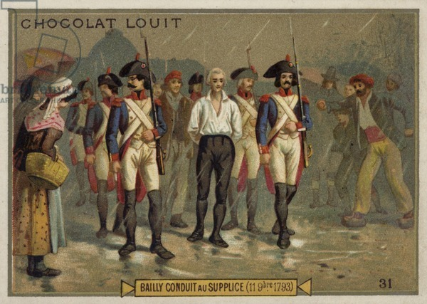 LLM977340 Jean Sylvain Bailly on his way to the guillotine, French Revolution, 11 November 1793 (chromolitho) by French School, (19th century); ( .: Jean Sylvain Bailly on his way to the guillotine, French Revolution, 11 November 1793. French educational card, late 19th/early 20th century.).